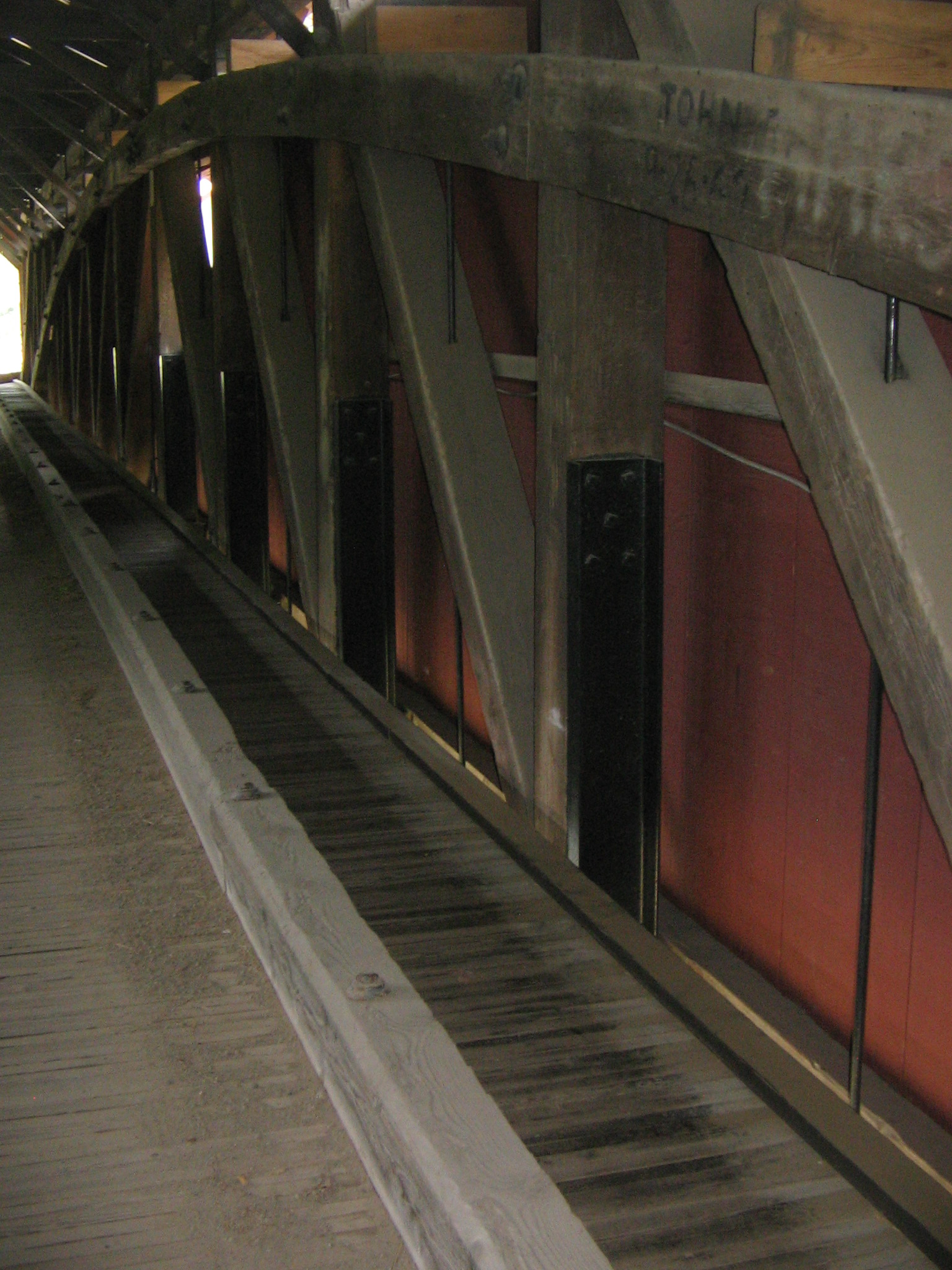 Interior of Forksville Covered Bridge in Forksville, Sullivan County, Pennsylvania in the United States. Looking west from east end, note Burr arch, wheel guards, and black vertical steel beams on King posts